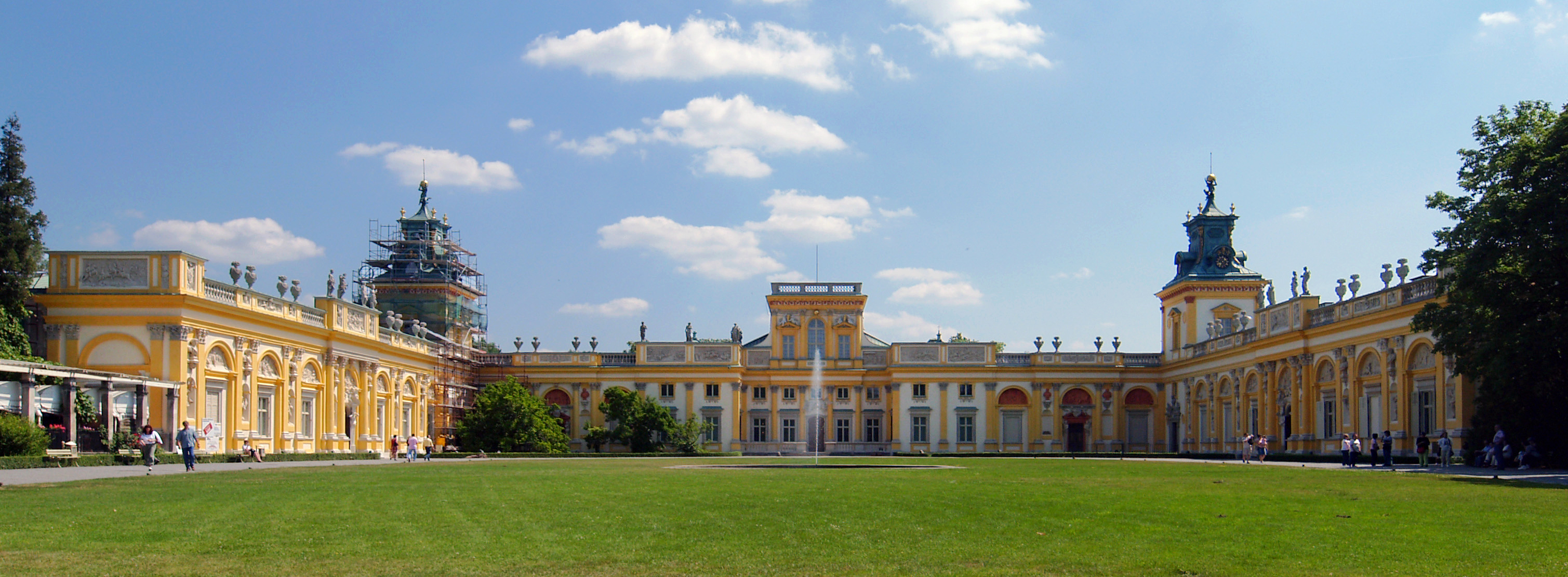 Frontal view to the Wilanow Palace at Warsaw, Poland